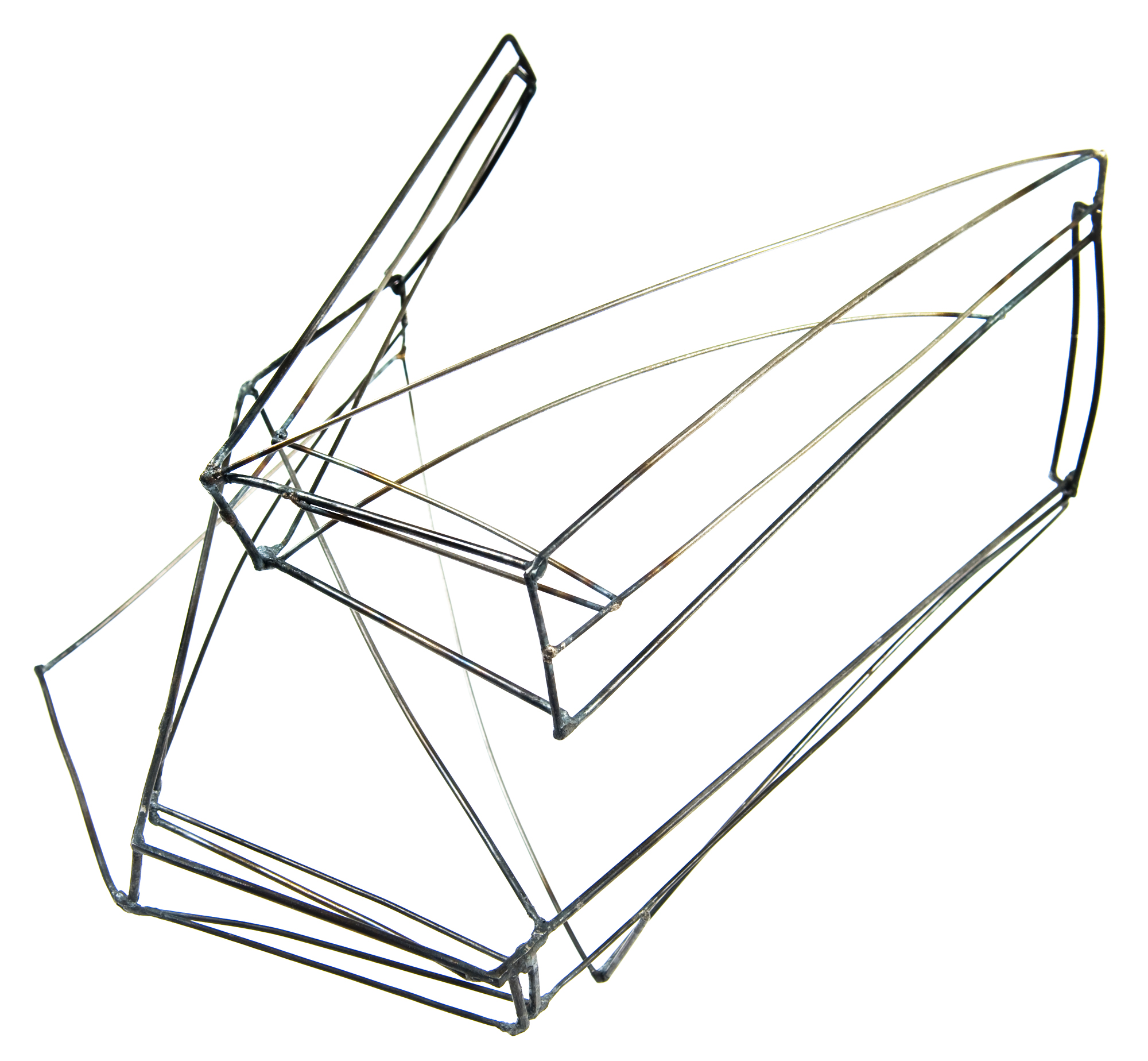 Steel Necklace 3 by Kadi Kübarsepp made 2011.